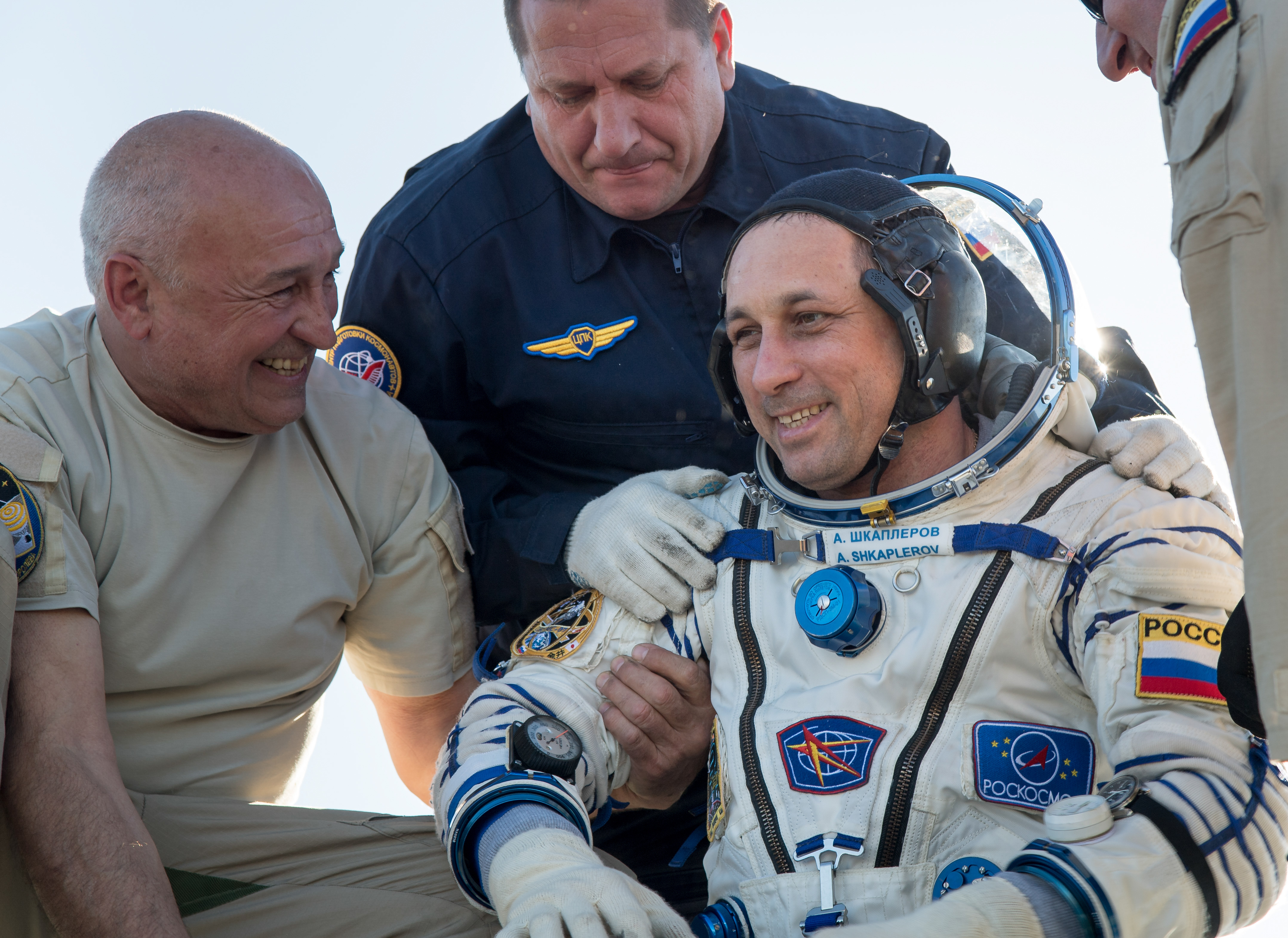 Roscosmos cosmonaut Anton Shkaplerov is helped out of the Soyuz MS-07 spacecraft just minutes after he, Japan Aerospace Exploration Agency (JAXA) astronaut Norishige Kanai, and NASA astronaut Scott Tingle landed in a remote area near the town of Zhezkazgan, Kazakhstan on Sunday, June 3, 2018. Shkaplerov, Tingle, and Kanai are returning after 168 days in space where they served as members of the Expedition 54 and 55 crews onboard the International Space Station.